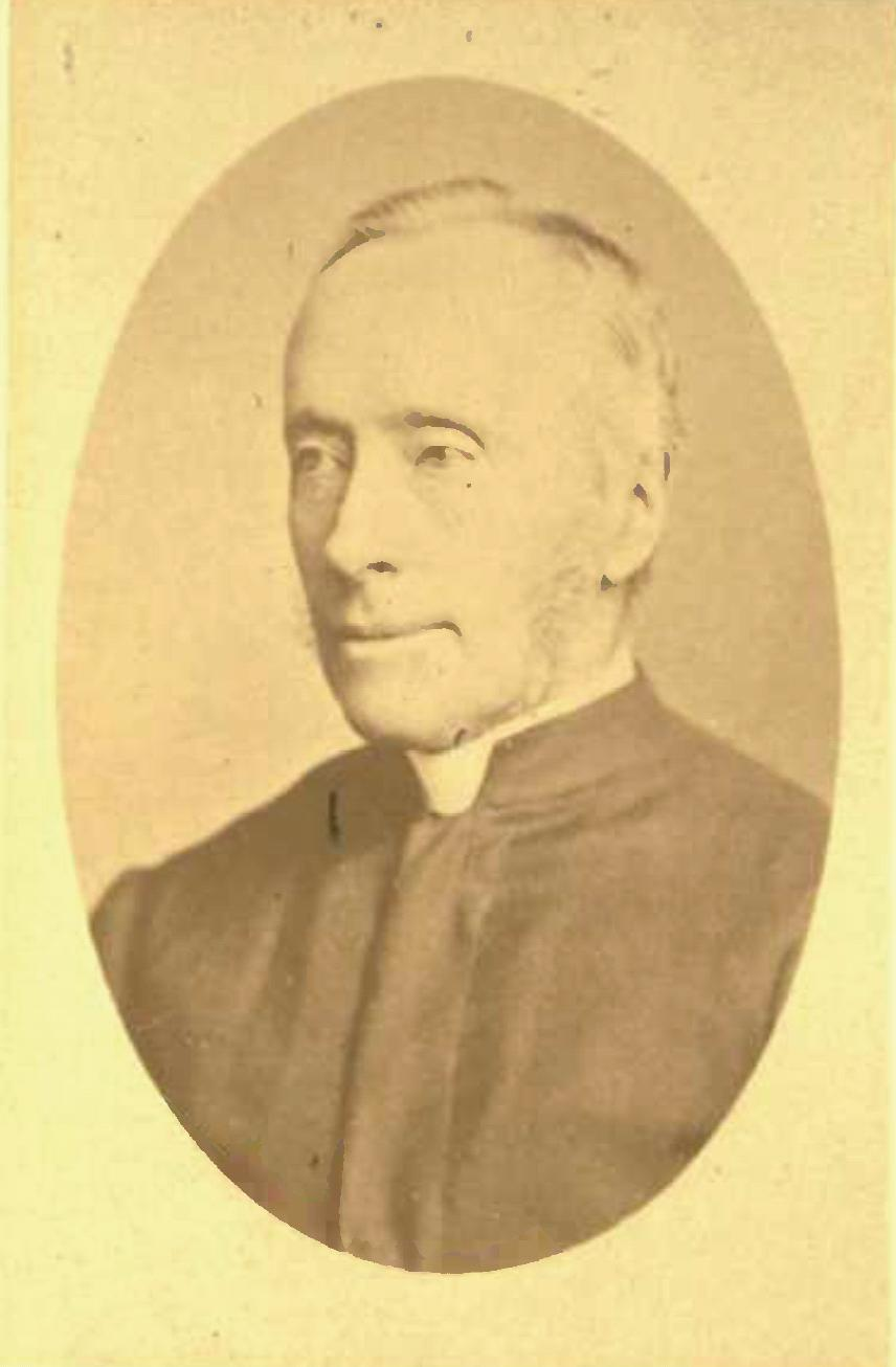 A plate of George Whitaker, the first provost of the University of Trinity College.